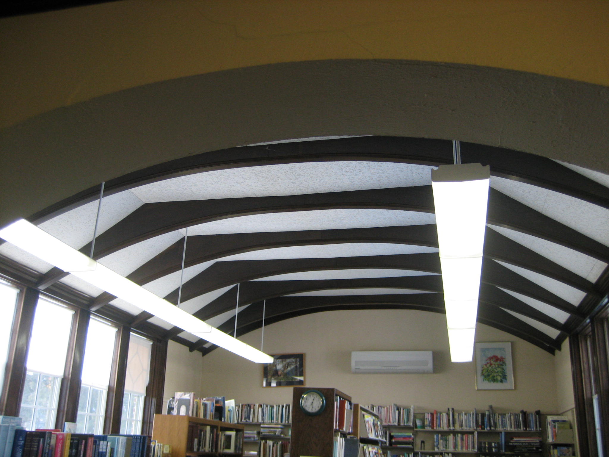 Oregon Public Library. Oregon, Illinois. National Register of Historic Places.